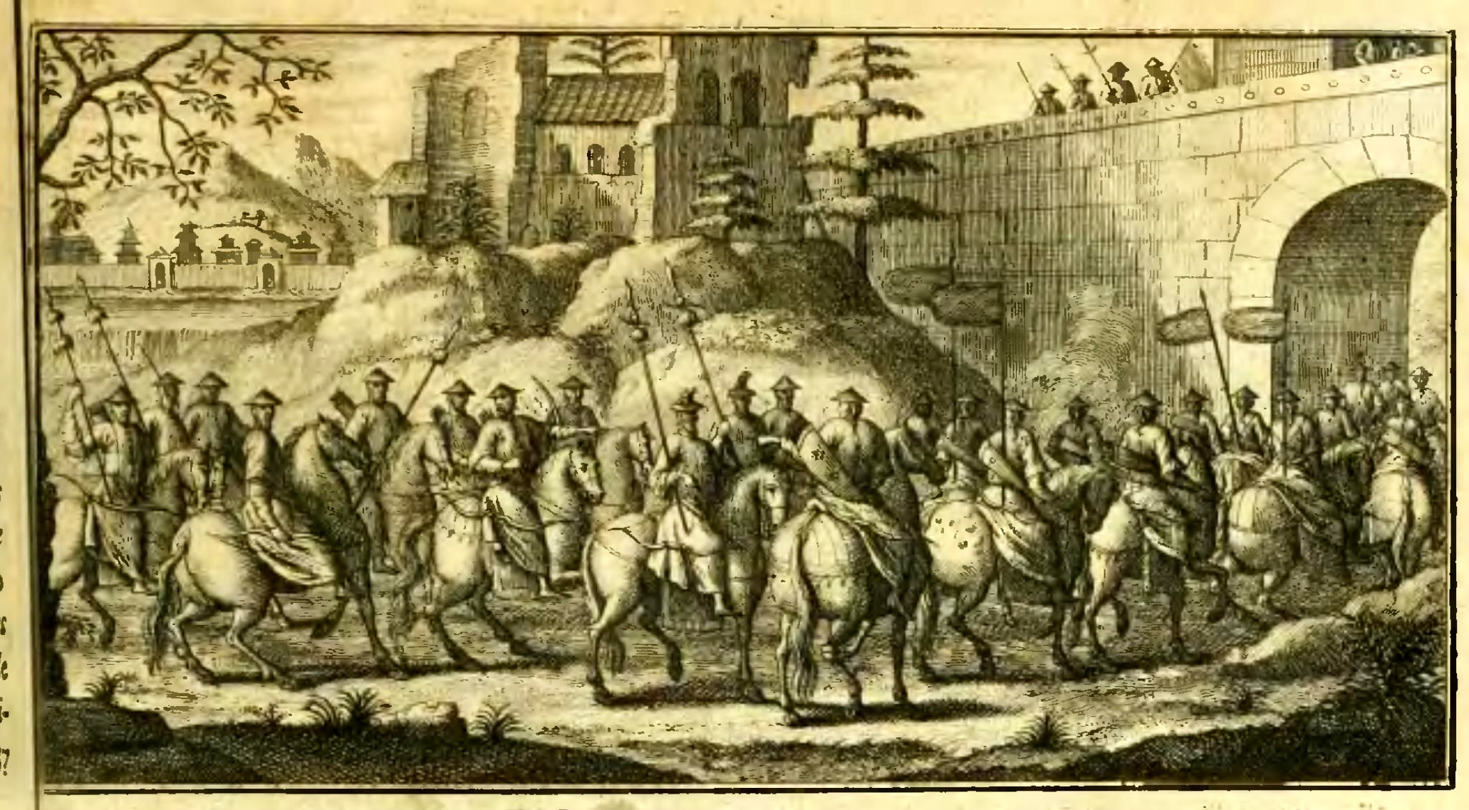 An engraving from La Haye's edition of Du Halde's Description of China, Vol. IV, preface. A wing of "Tartar" (i.e., Manchu or Mongolian) cavalry.